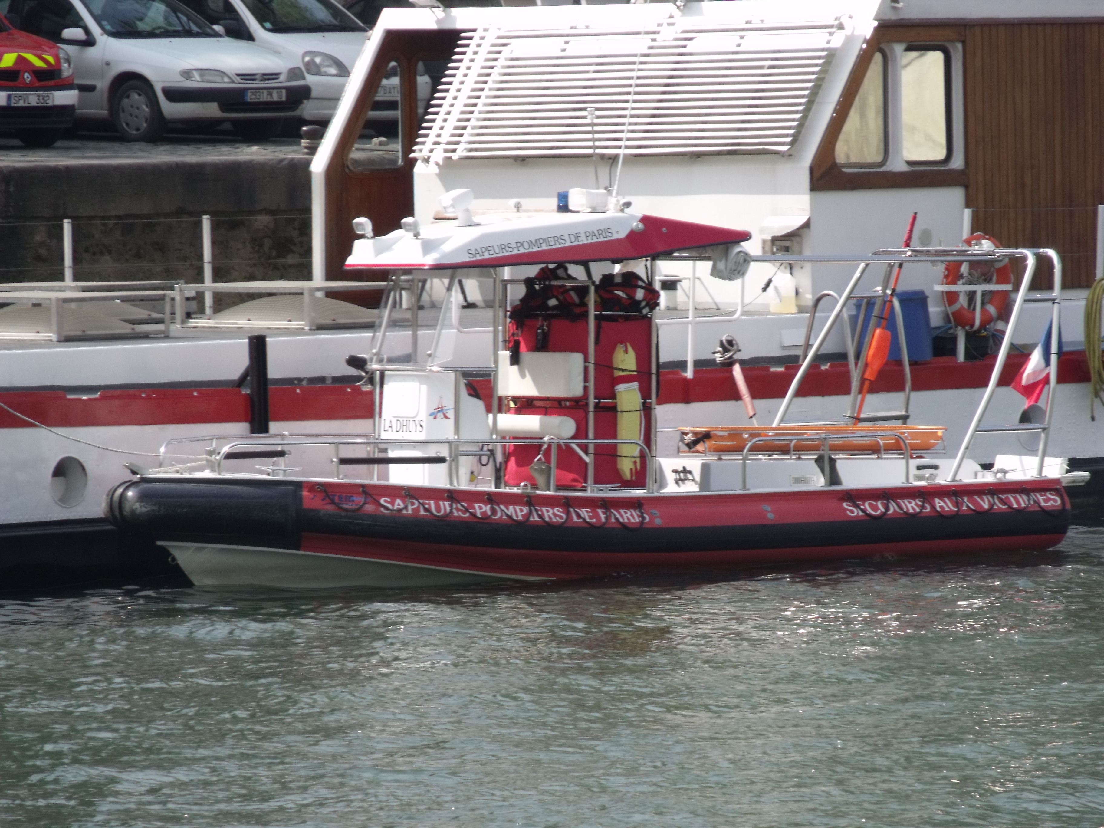 ESAV Paris firemen light response boat on the river Seine.